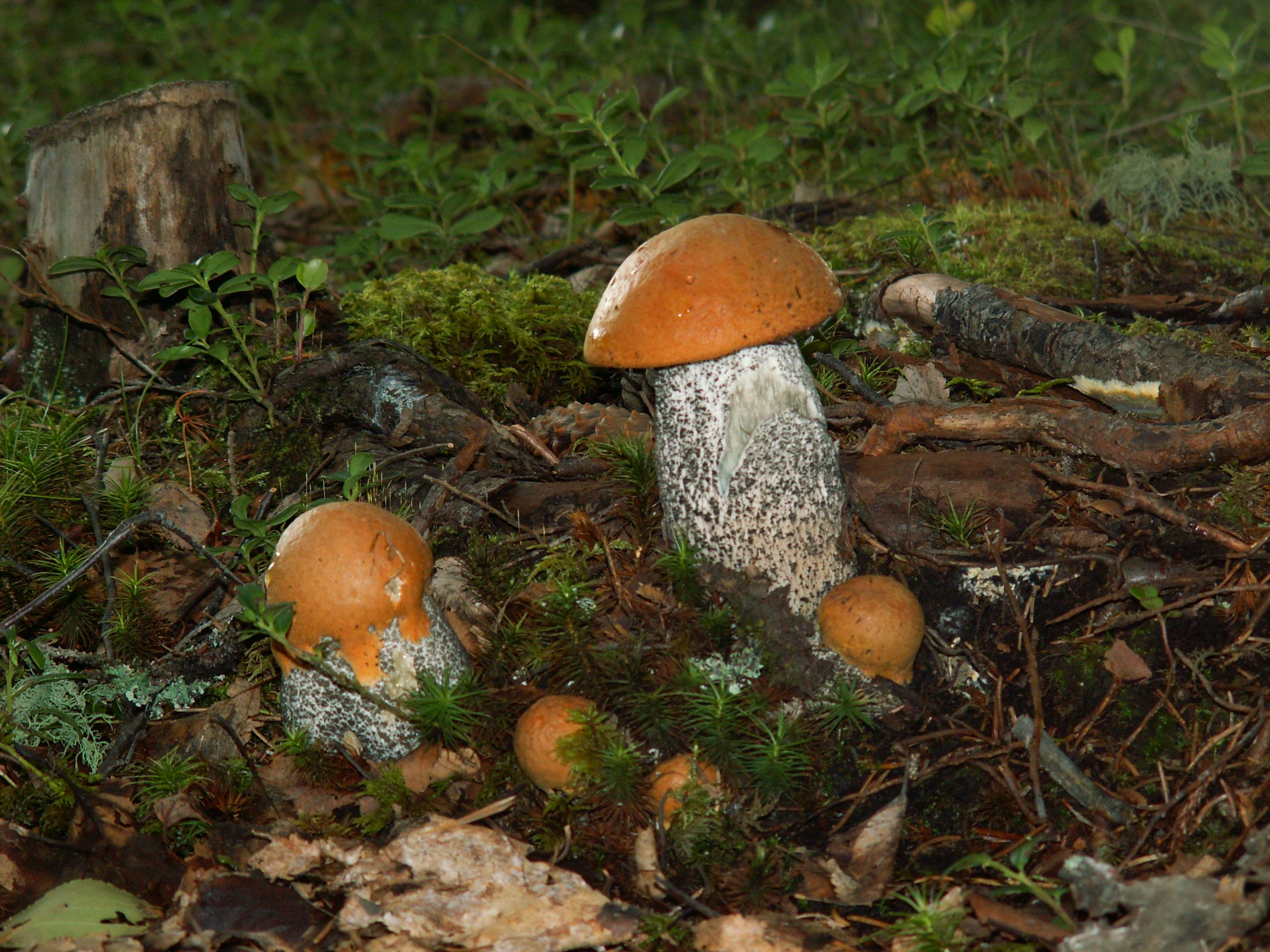 Leccinum aurantiacum